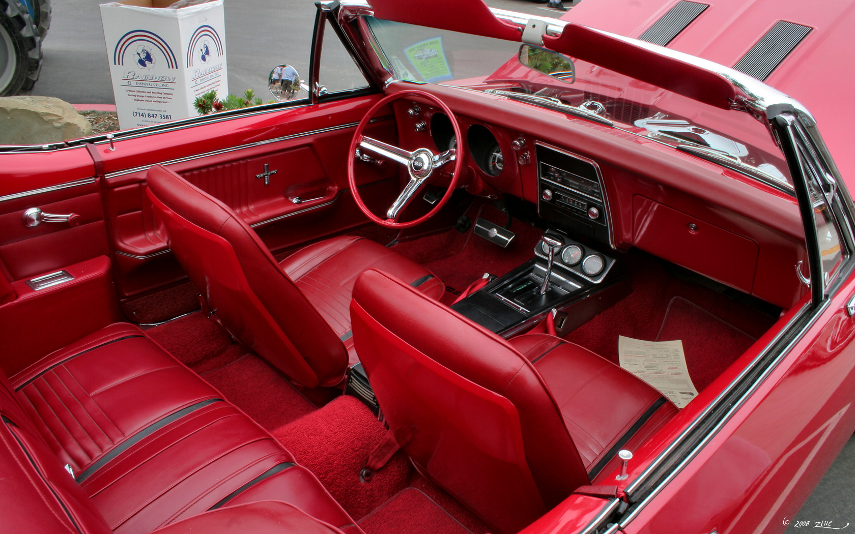 1967 Chevrolet Camaro SS cnv - red - int